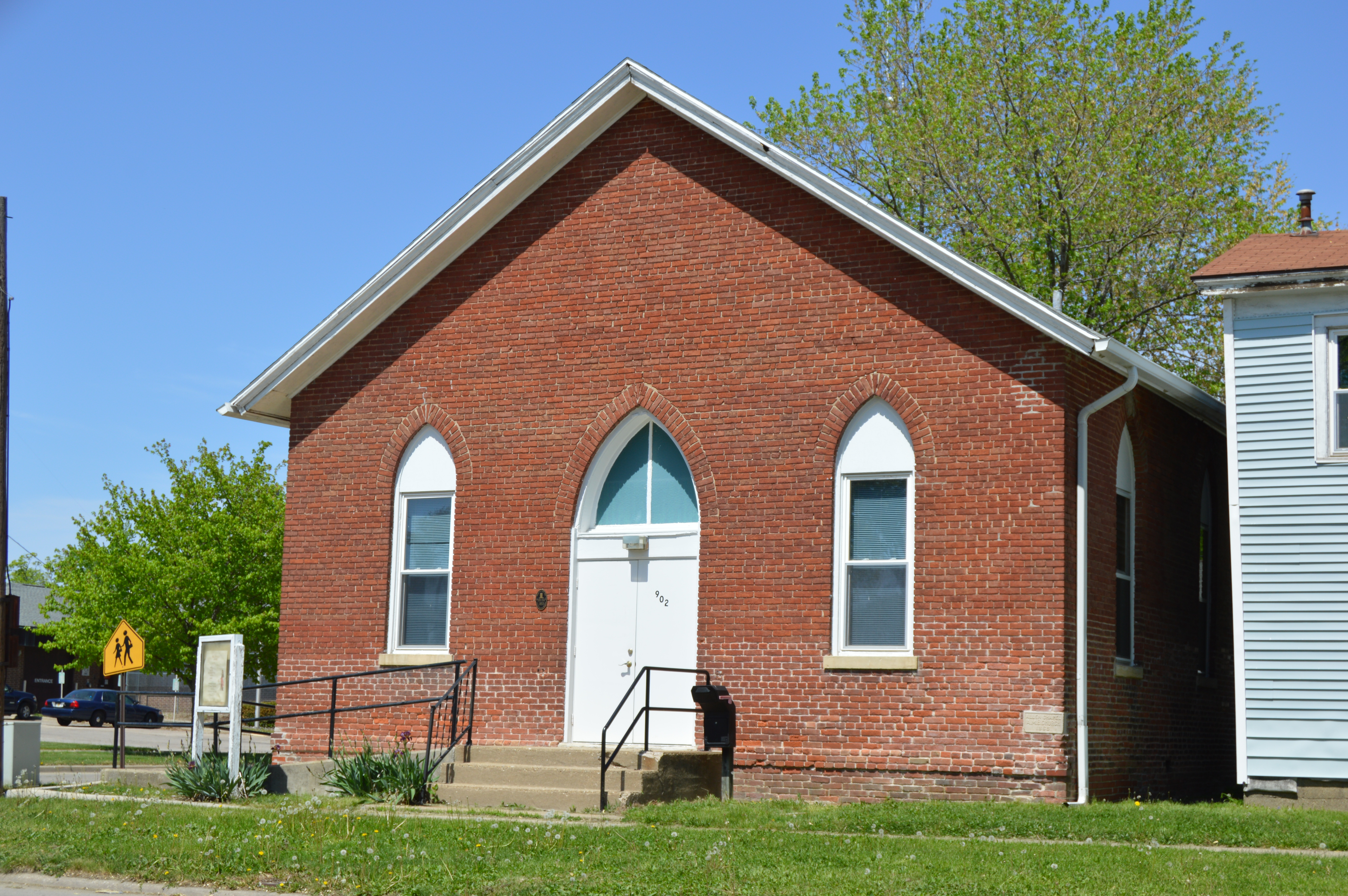 Front of the Allen Chapel African Methodist Episcopal Church, located at 902 Broadway in Lincoln, Illinois, United States. Built in 1880, it is listed on the National Register of Historic Places.